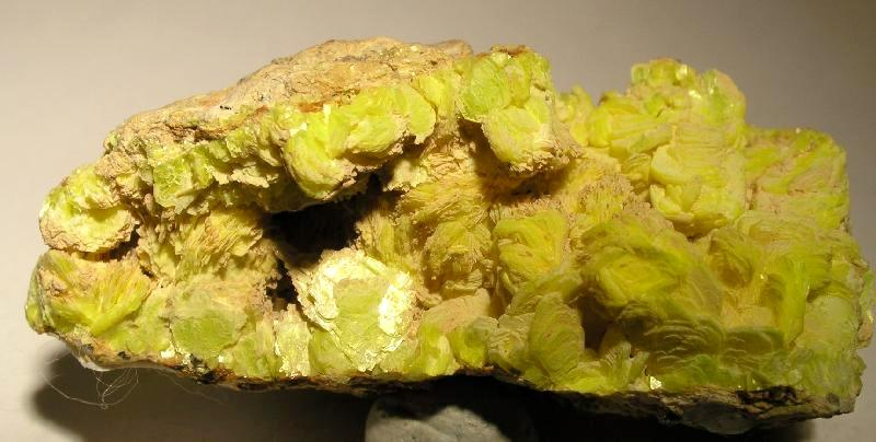 Sabugalite Locality: Margnac Mine, Compreignac, Haute-Vienne, Limousin, France (Locality at ) An extremely rare uranium phosphate, with crystals completely covering 4 of 6 sides and forming a solid specimen. This is very rich and colorful. 4.5 x 2.5 x 2 cm